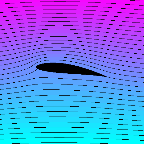 Streamlines in a frame of reference moving with the airfoil